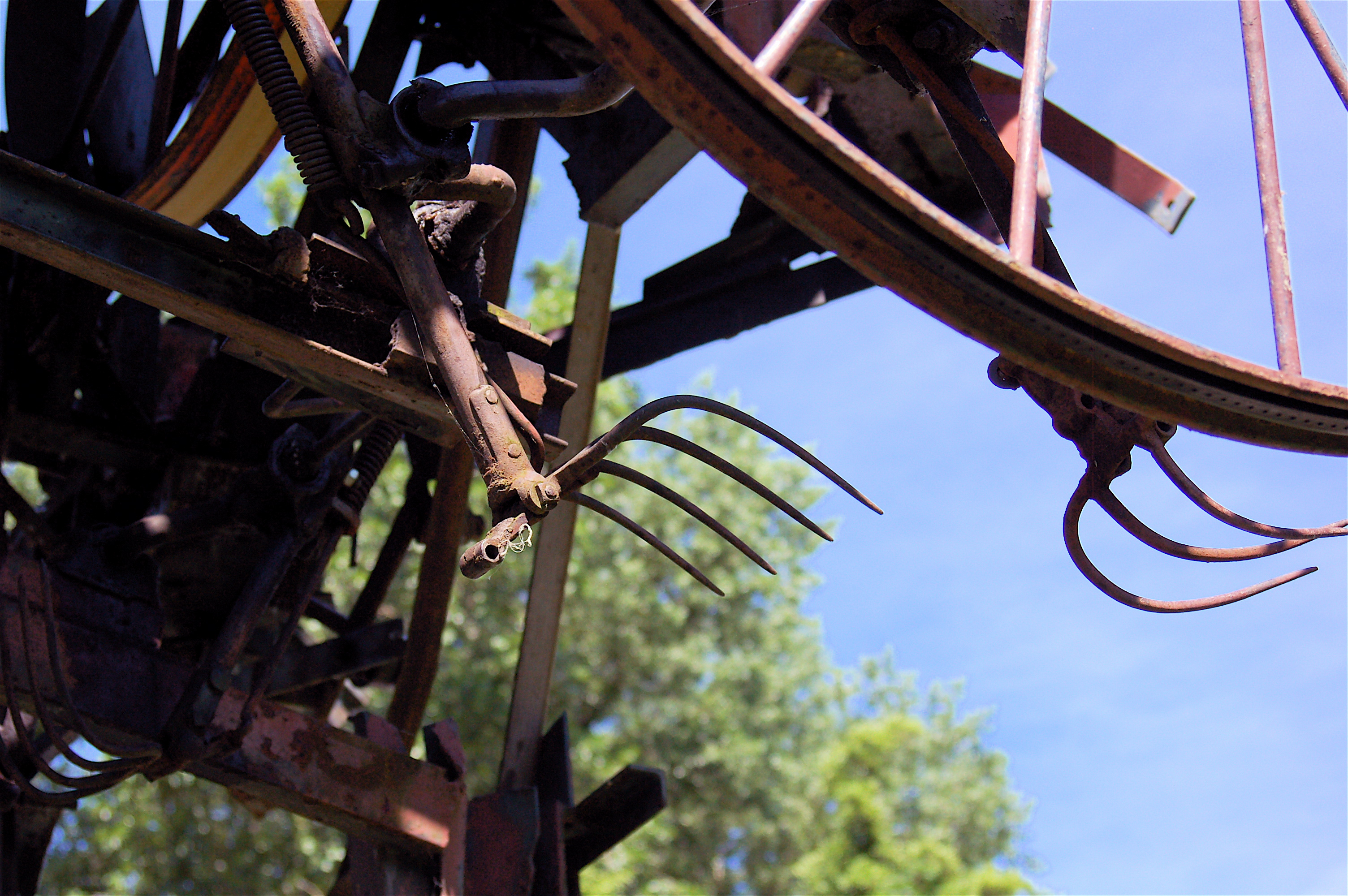 A kinetic sculpture entitled Heureka, created in 1963/64 by Jean Tinguely, on the shore of Lake Zurich. Parts of an old fork hay tedder are visible. – The sculpture is as much an auditory event as it is visual, with all the rusted whirrings of the gears, belts, wheels, and pulleys. I found a video (alas, no sound) on YouTube, which conveys some of the effect. Watch the video all the way to the end, the last few seconds convey the scale of the machine. It was interesting trying to photograph the sculpture, because there is so much going on. I decided to take a few shots of the gears I like the most. I found it impossible to take a picture of the entire machine that captured enough of the details that made it interesting.